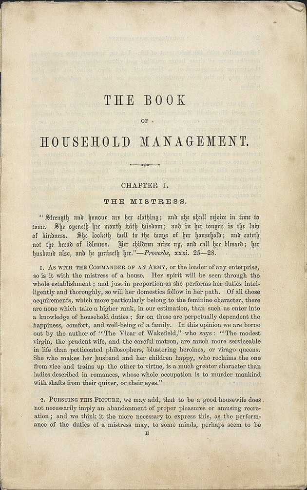 Beginning of chapter 1 of "Book of Household Management" by Isabella Beeton